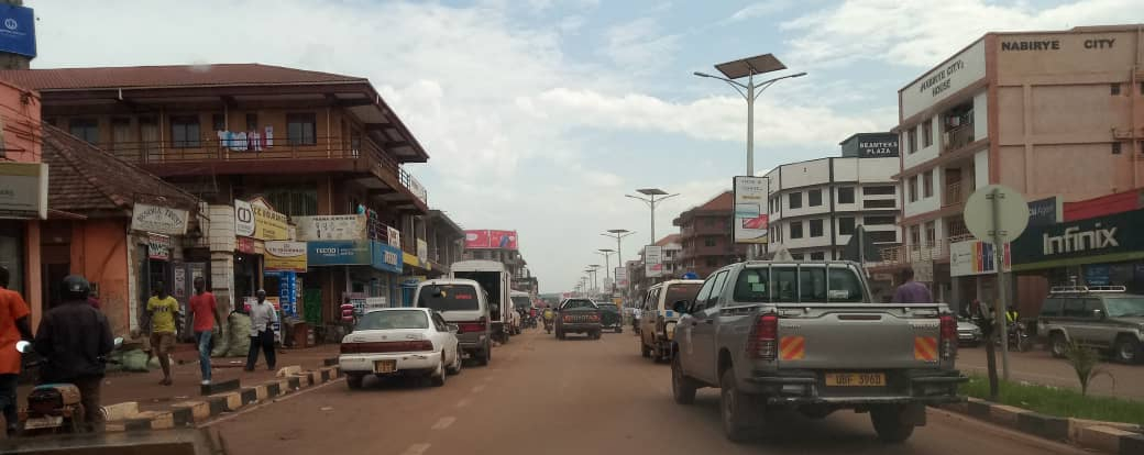 I was travelling through the town of Mbarara when I noticed just how busy this town actually is right after the weekend. As you can see, there is no doubt that the people here are on the move. This is an image with the theme "Africa on the Move or Transport" from: Uganda